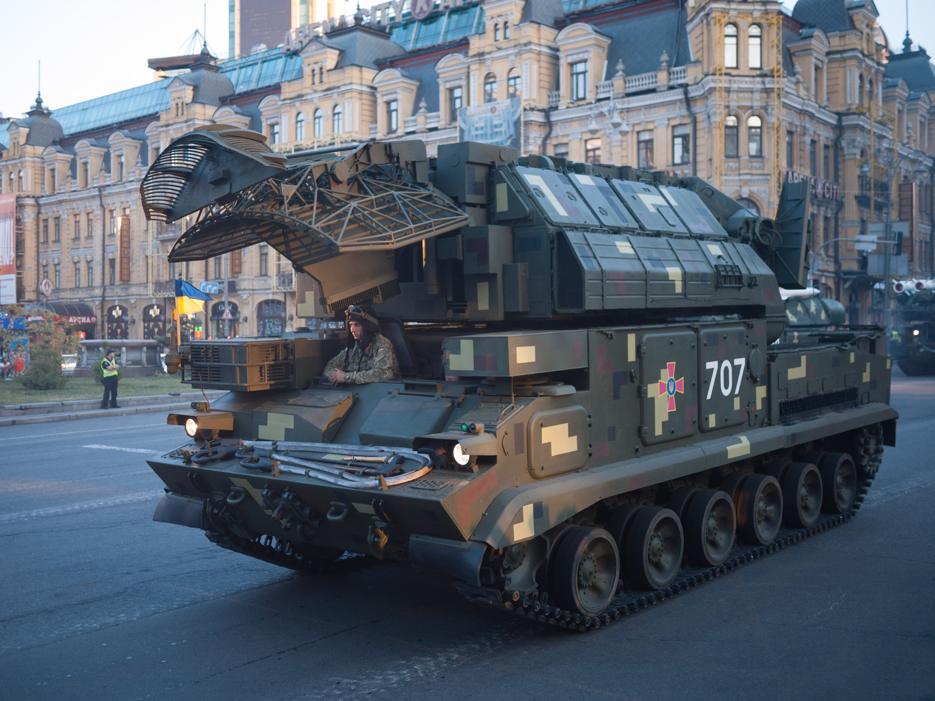 9K330 Tor surface-to-air missile system, rehearsal for the Independence Day military parade in Kyiv, 2018